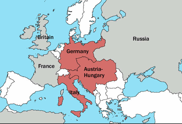 A simple map showing the Triple Alliance of Germany, Austria and Italy in 1913. The alliance members are puce, other great powers are grey.